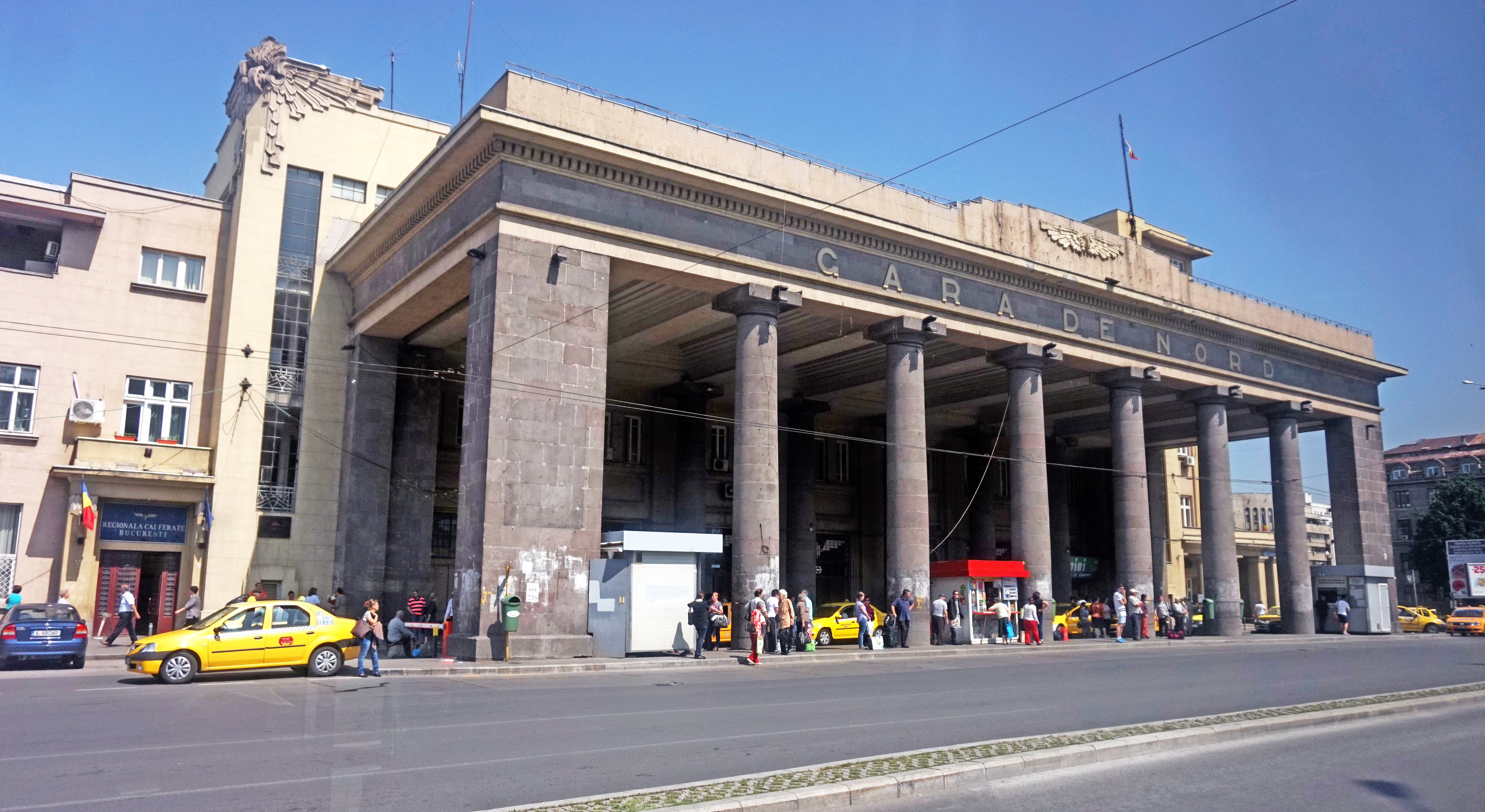 Gara de Nord station in Bucharest. This photograph was taken with a Sony Alpha a5000.